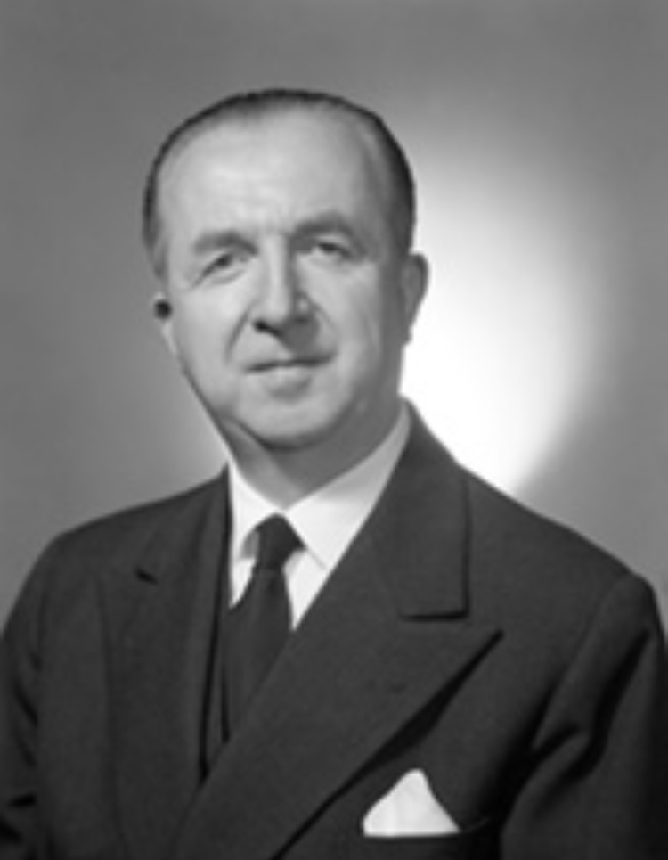 Giuseppe Pella